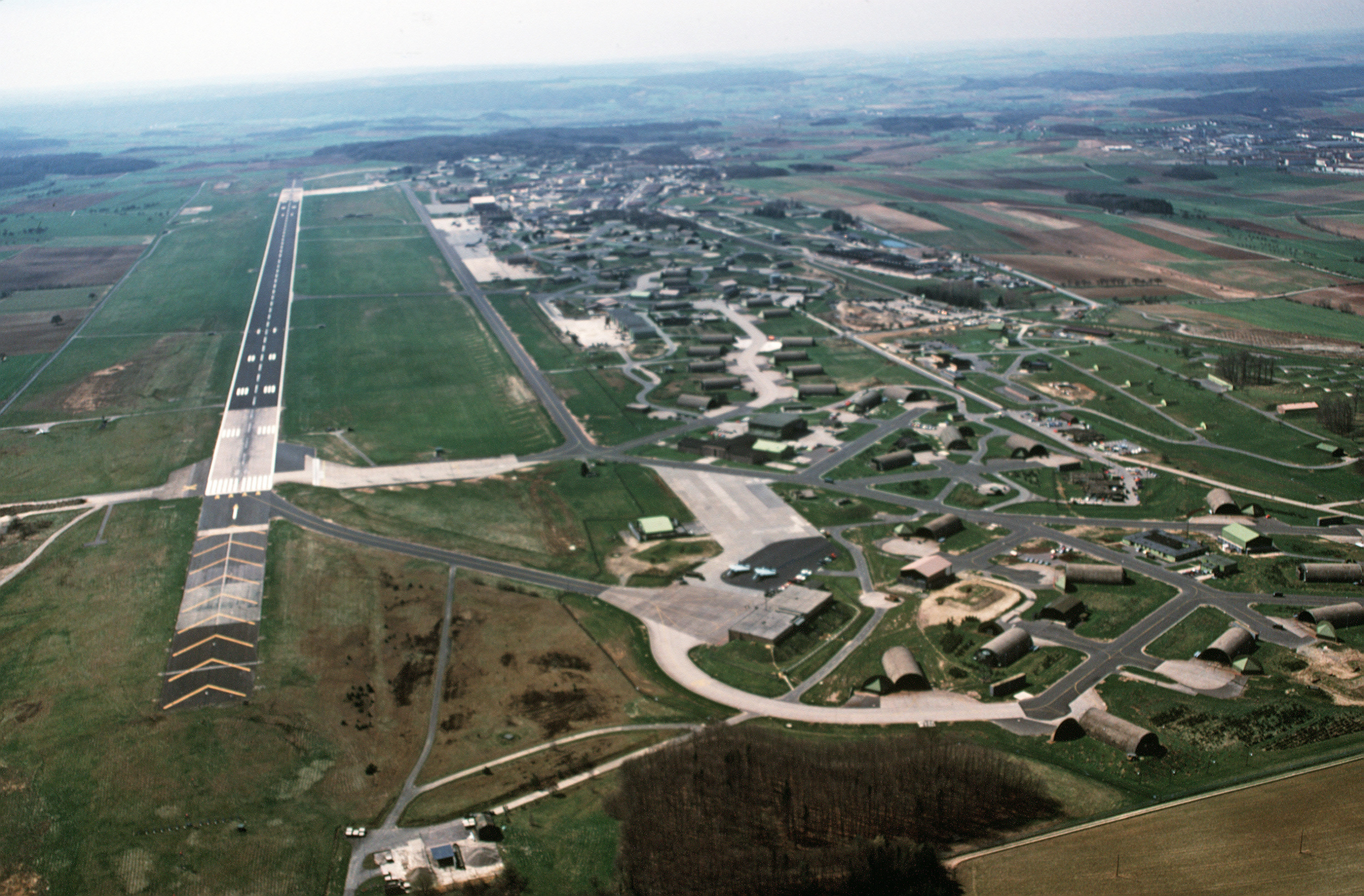 An aerial view of Bitburg Air Base (looking south-west), Rheinland-Pfalz, (West) Germany in 1988.